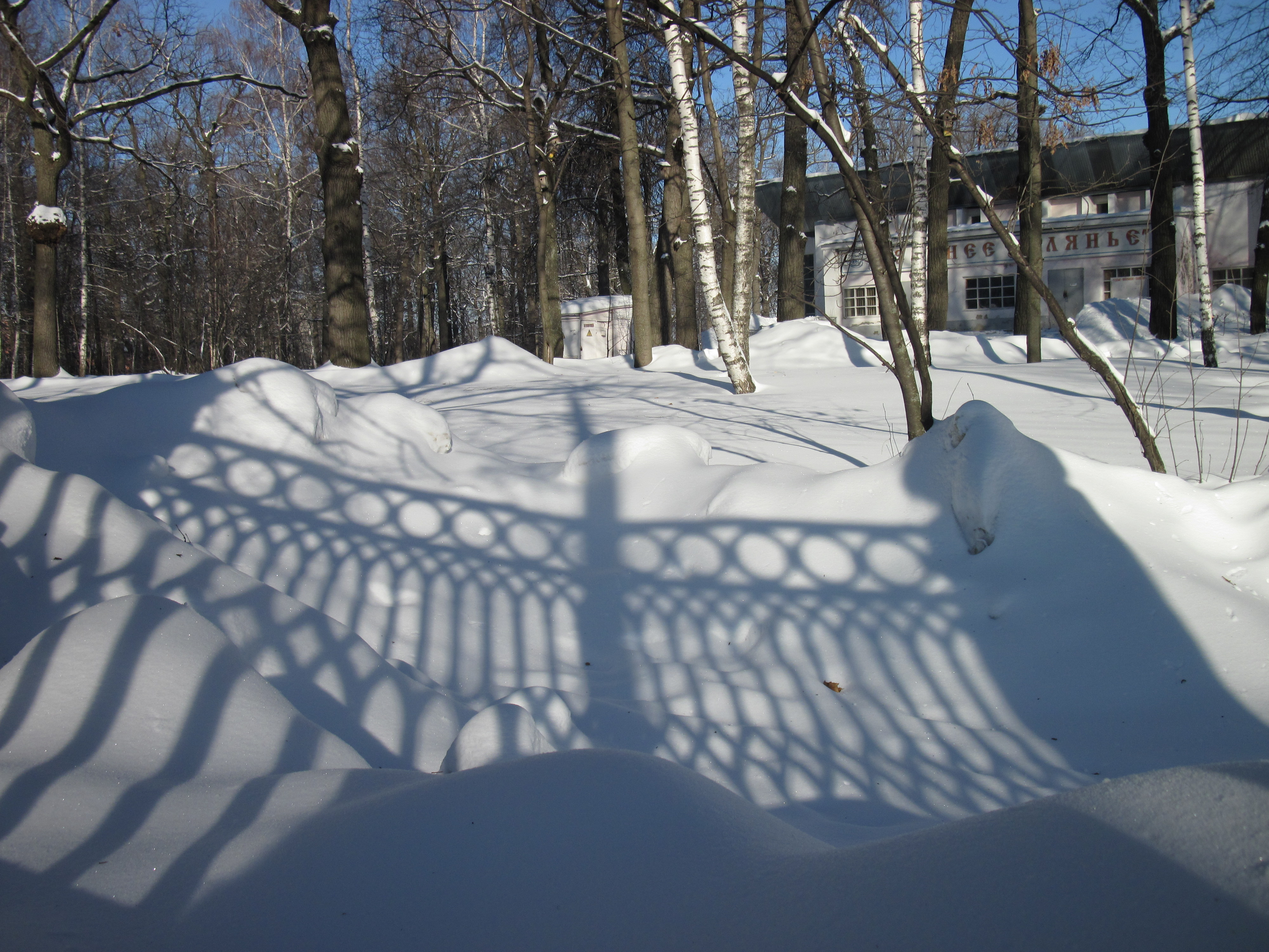 Park grid in Penza